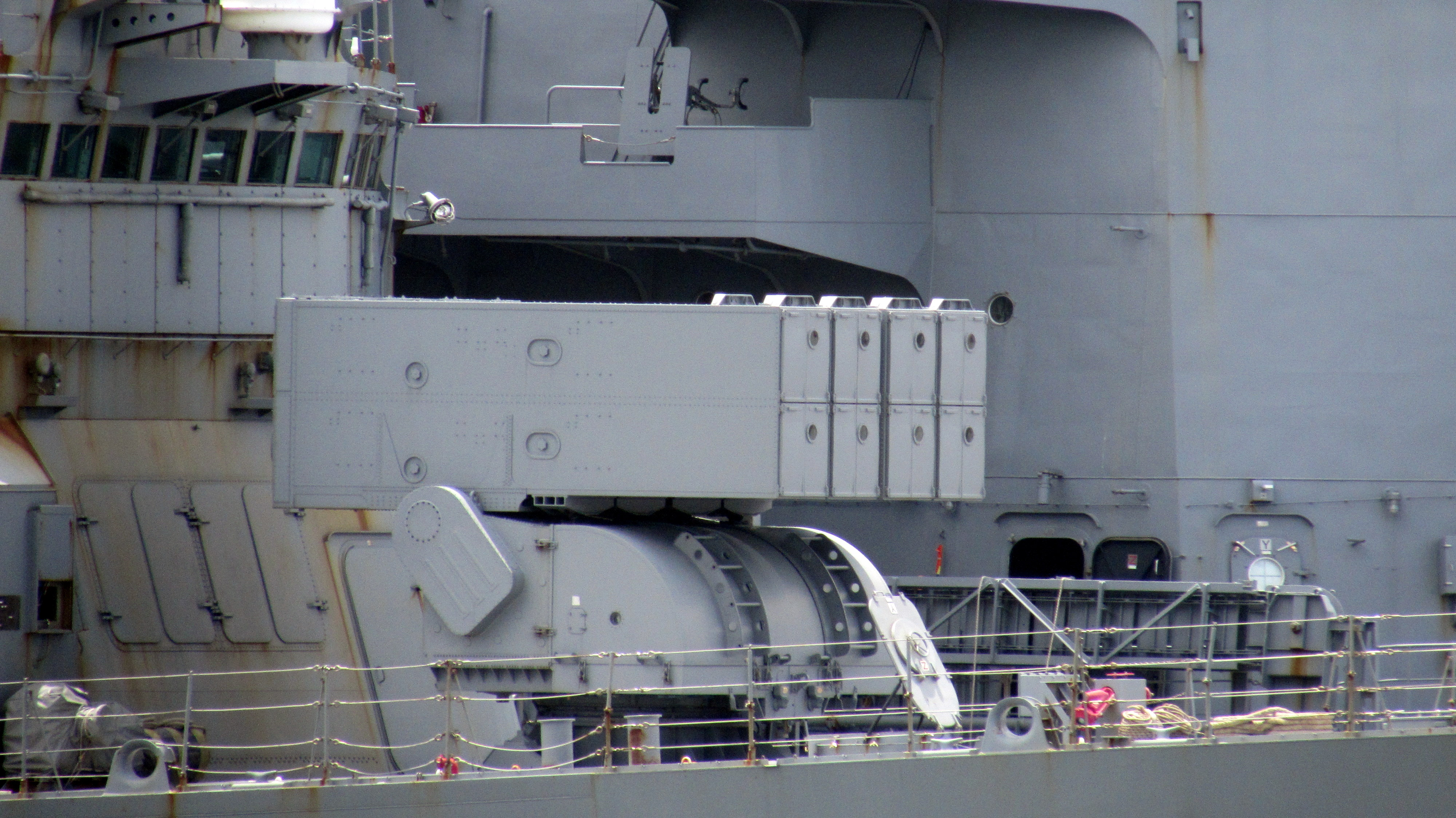 The Mk 16 Launchers for the RUR-5 Anti Submarine Rockets (ASROC) of the JS Yugiri (DD-153), an Asagiri class Destroyer of the Japanese Maritime Self Defense Force (JMSDF). Photo taken at the Manila South Harbor.